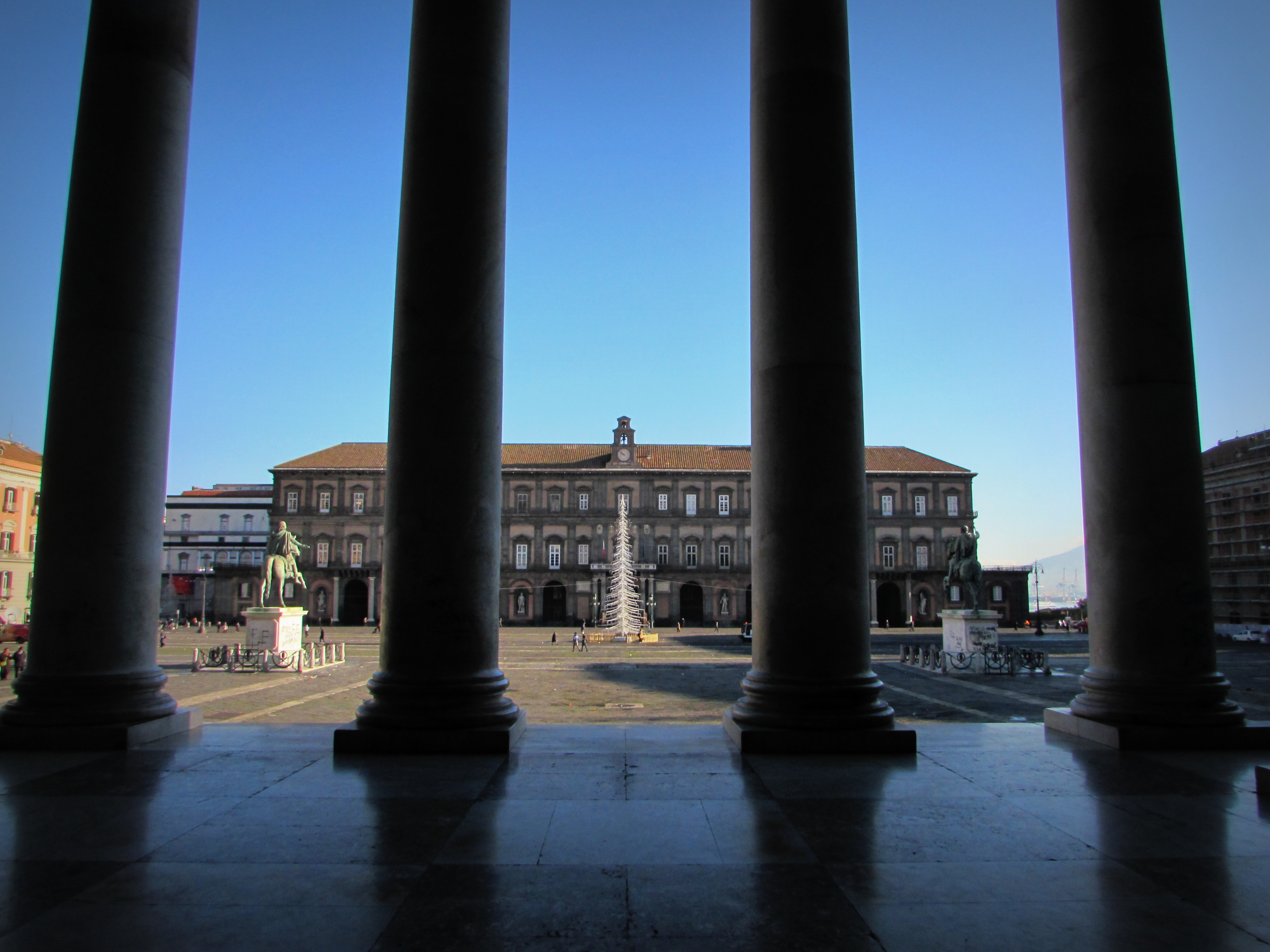 View of Piazza del Plebiscito, in Naples